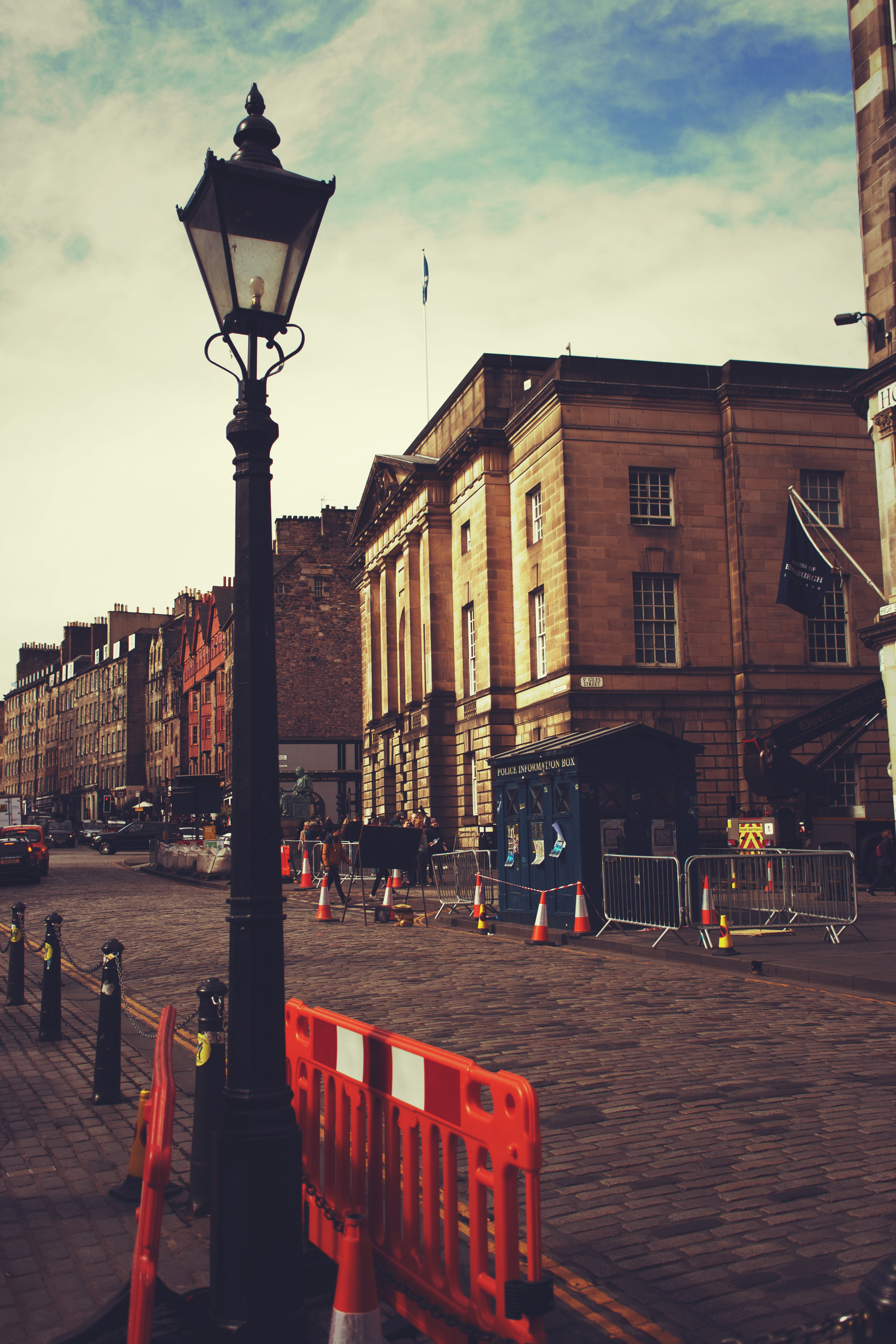 Film set of Avengers: Infinity War in Edinburgh, Scotland.